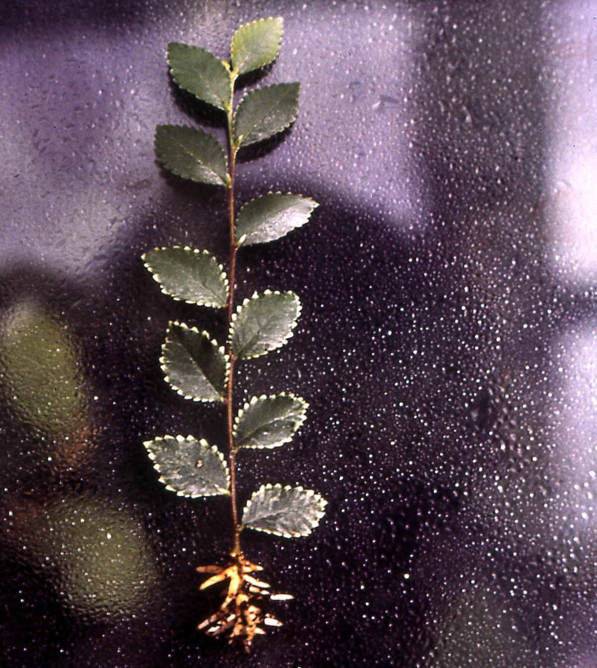 Rooted cutting of Ulmus parvifolia 'Nana Variegata' in Boskoop 1984.